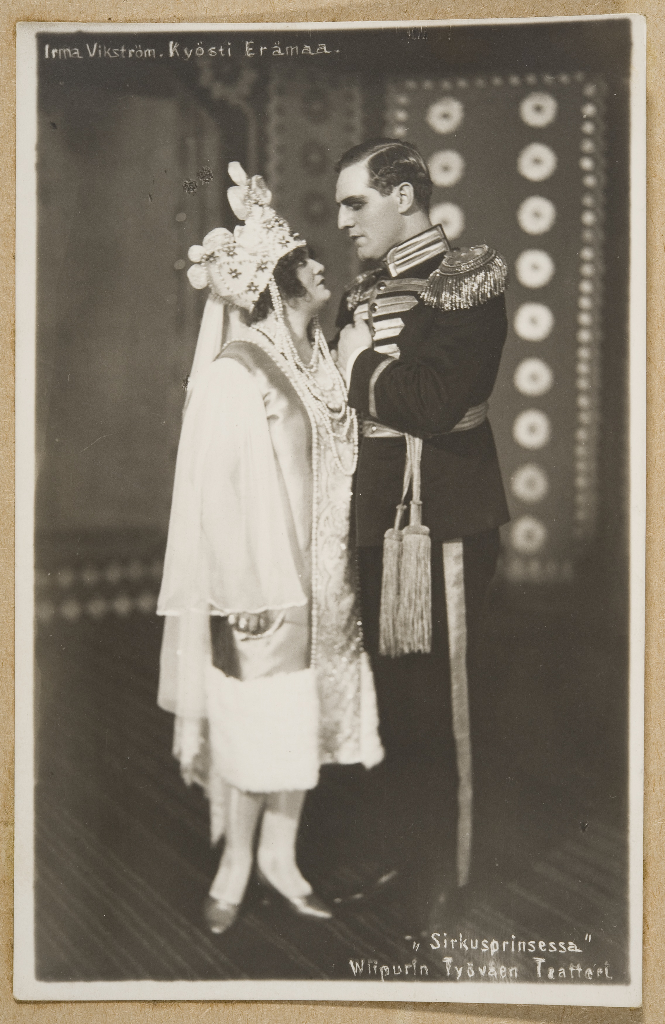 The Finnish actors Irma Wikström and Kyösti Erämaa in the operetta Die Zirkusprinzessin at Vyborg's Workers Theatre in 1926 or 1927